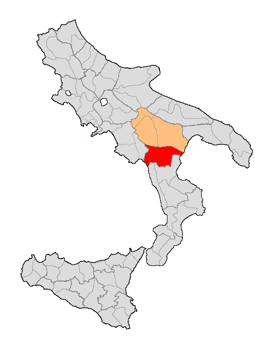 Locator map of Distretto di Lagonegro